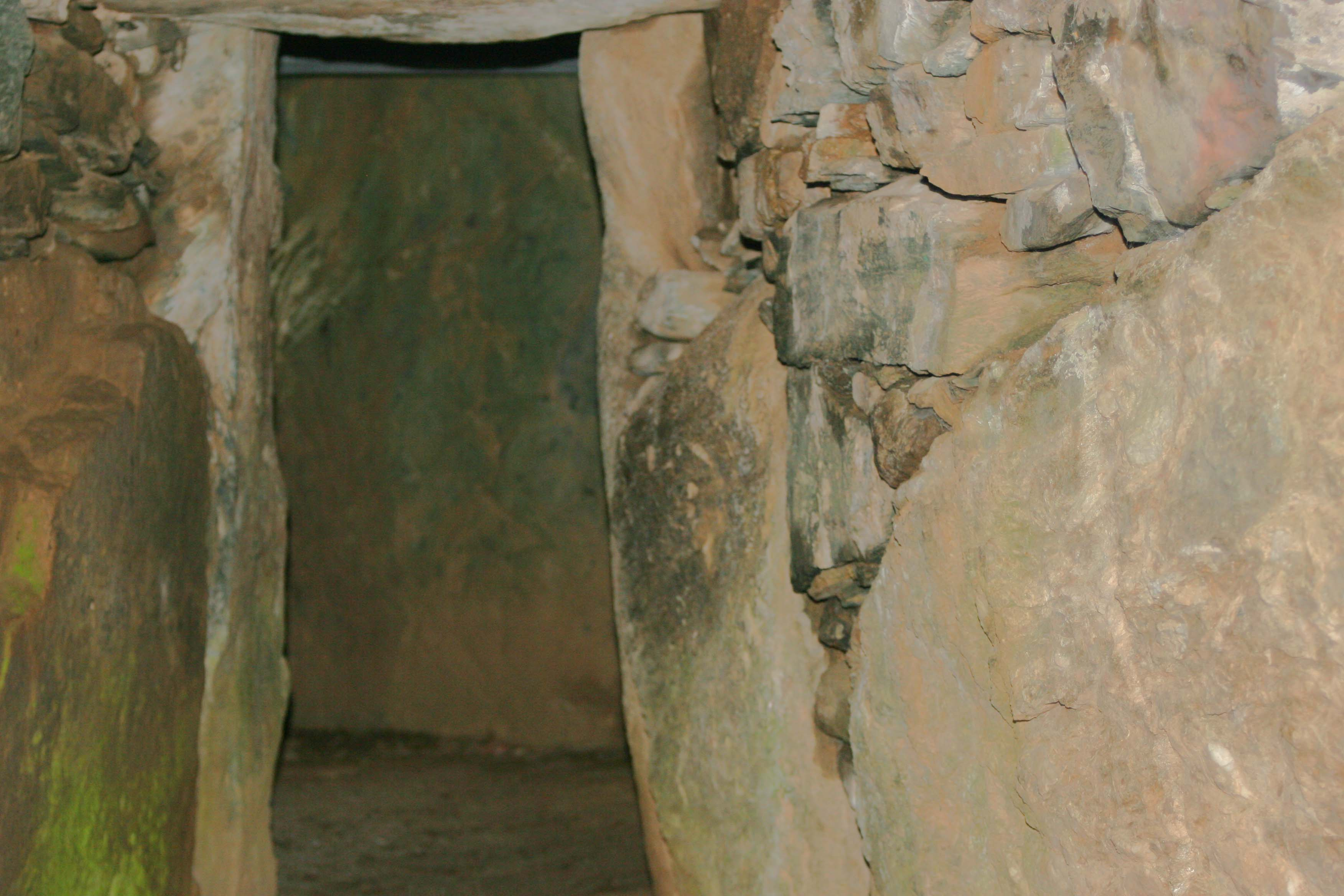 Bryn Celli Ddu, Anglesey - interior view